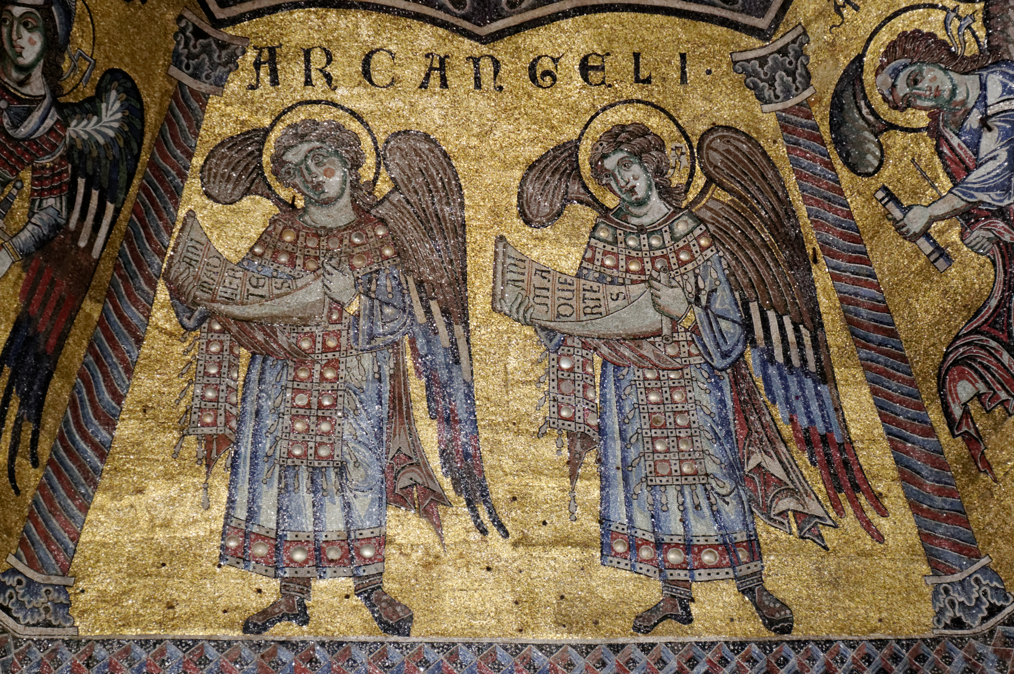 Mosaic ceiling: angelic hierarchy: the archangels.